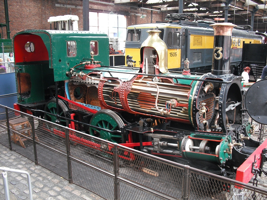 Isle of Man Number 3